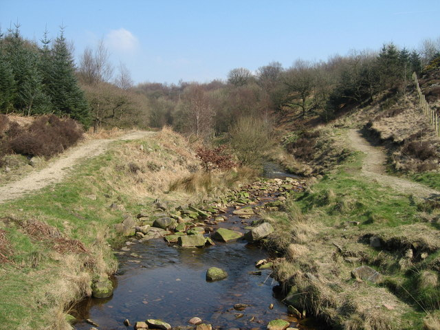 Lead Mines Clough Lead Mines Clough near Anglezarke Moor where lead was mined for at least two hundred years along the Limestone Brook. Remains of the workings have recently been unearthed such as the water wheel shaft and slime pit.